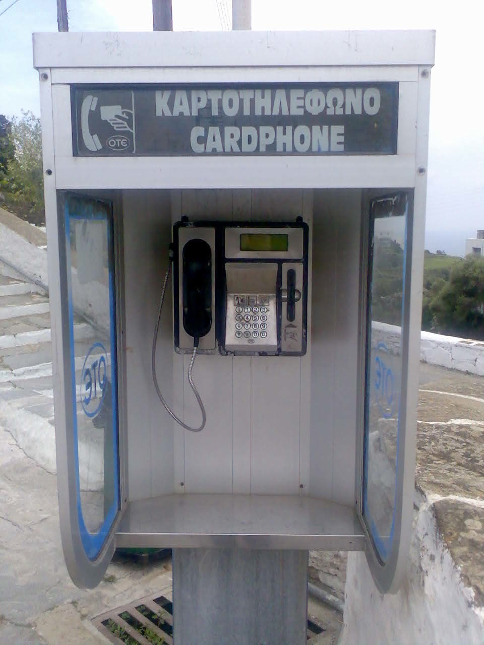 Payphone